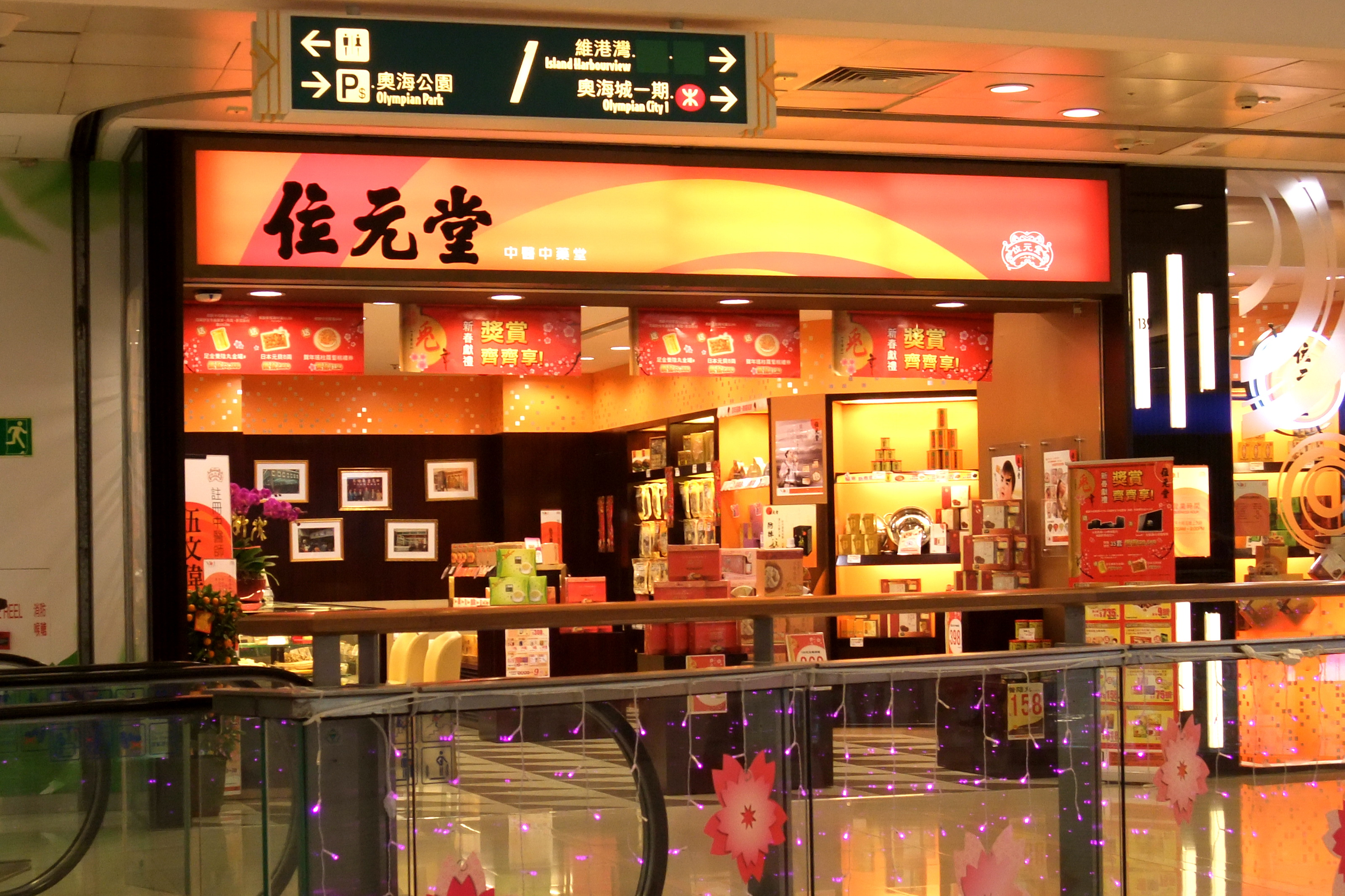 Wai Yuen Tong at Olympian City 2, Hong Kong.